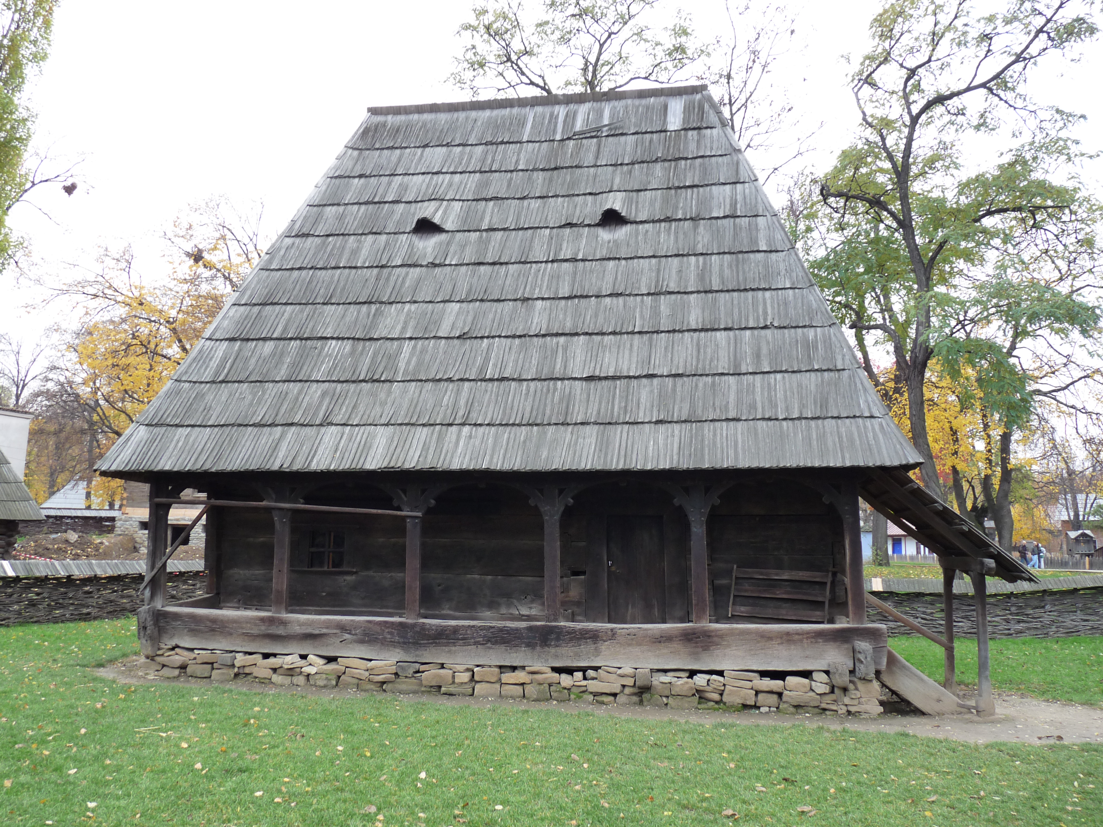 1775 household from Berbeşti, Maramureş County, Romania, exhibited at the Village Museum in Bucharest. The house.